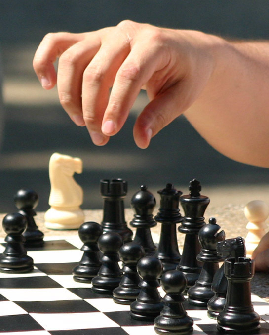 Chess players in Dupont Circle, Washington, D.C.